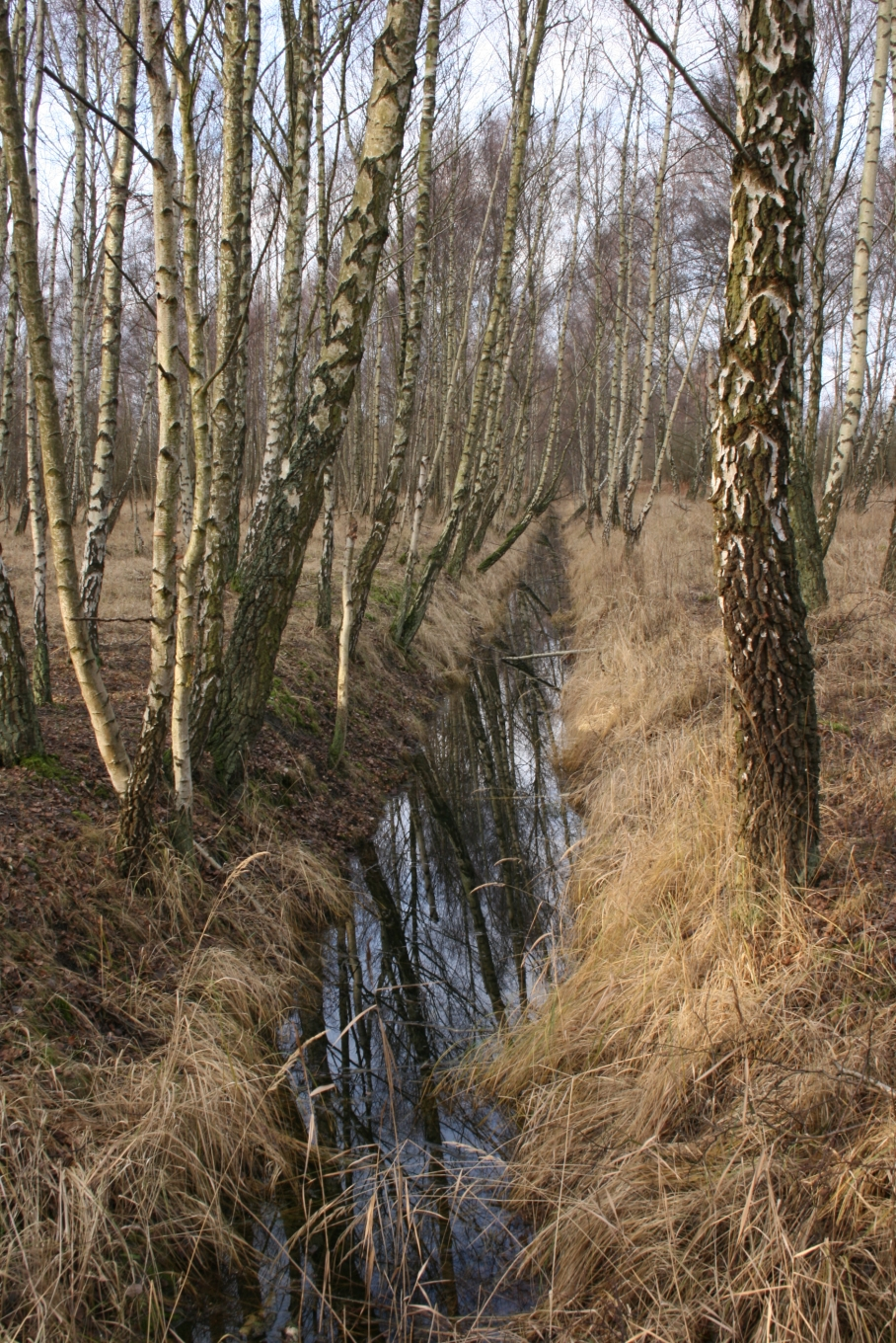 Self-grown birch forest on Amager Fælled (former commons now becoming a public park)